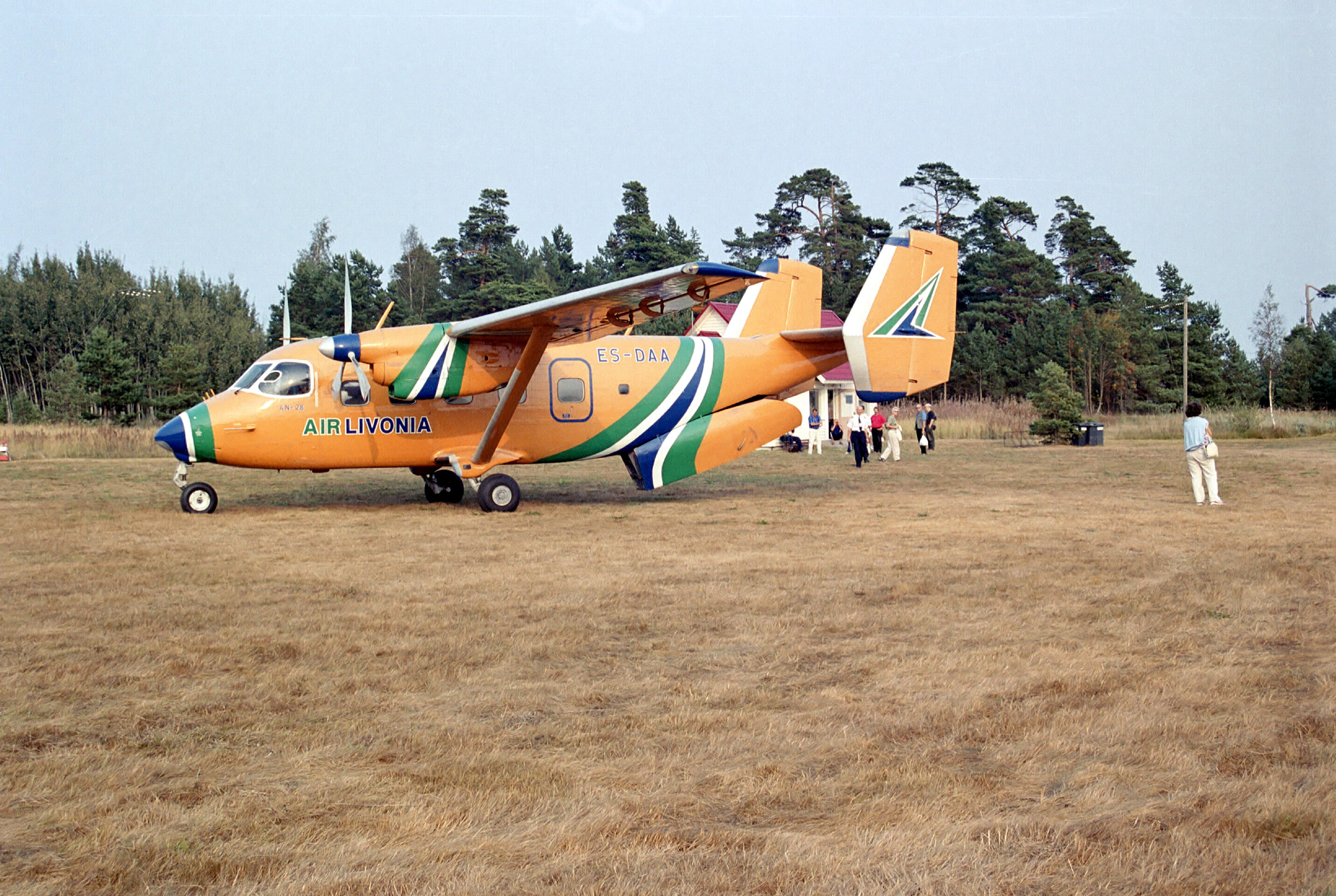 A An-28 of Air Livonia in Ruhnu, 2002.